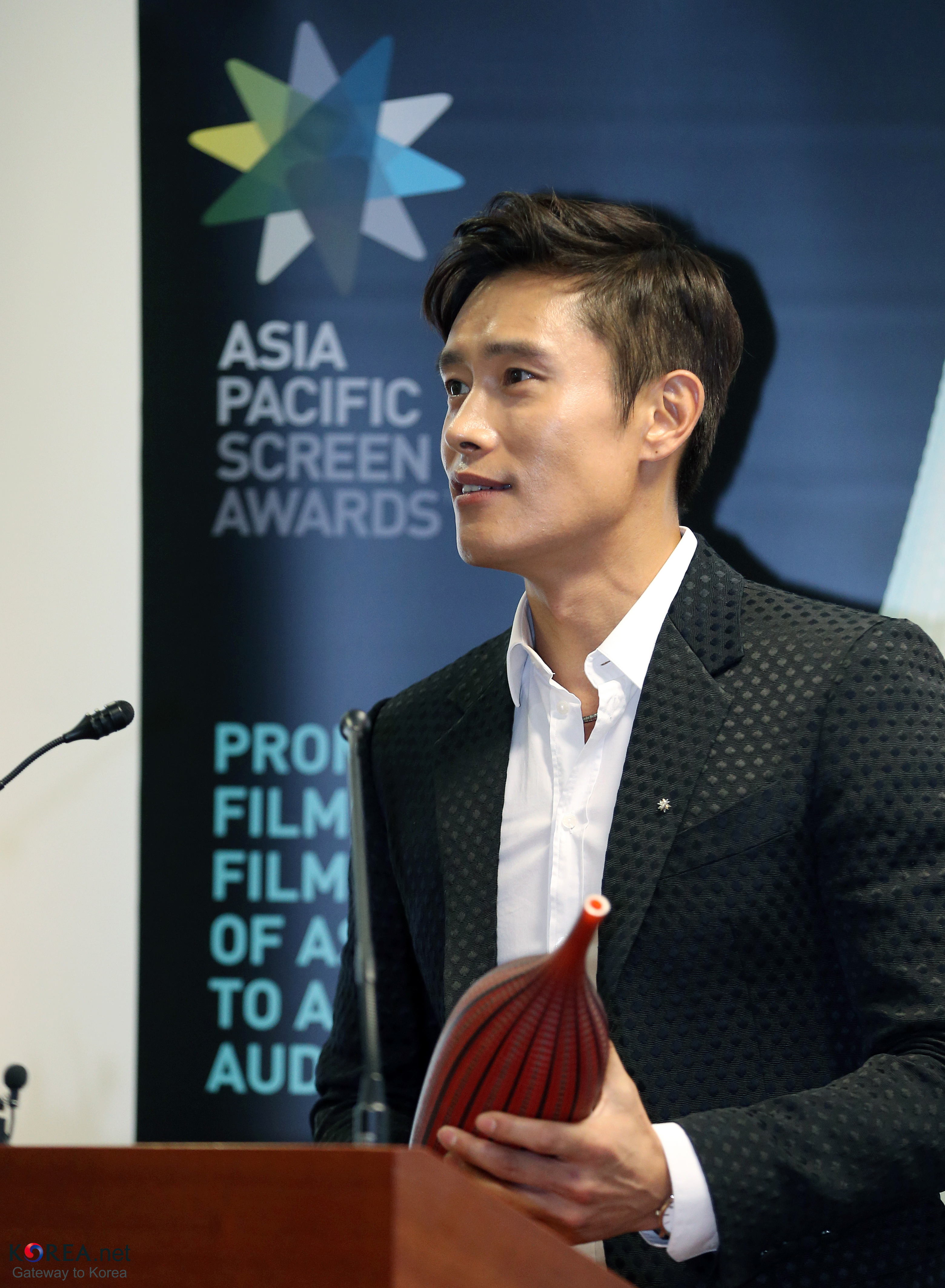 Actor Lee Byung-hun APSA(Asia Pacific Screen Awards) June 3, 2014 Australian Embassy, Seoul Ministry of Culture, Sports and Tourism Korean Culture and Information Service ( Official Photographer: Jeon Han This official Republic of Korea photograph is licensed as free content, so while restrictions such as personality or privacy rights may apply, in general, manipulations are allowed. If you want a photograph without a watermark, you may ask via Flickr e-mail. 이병헌 2013 아시아 태평양 스크린 어워즈 남우주연상 수상 2014-06-03 호주대사관 호주센터, 광화문 문화체육관광부 해외문화홍보원 코리아넷 전한